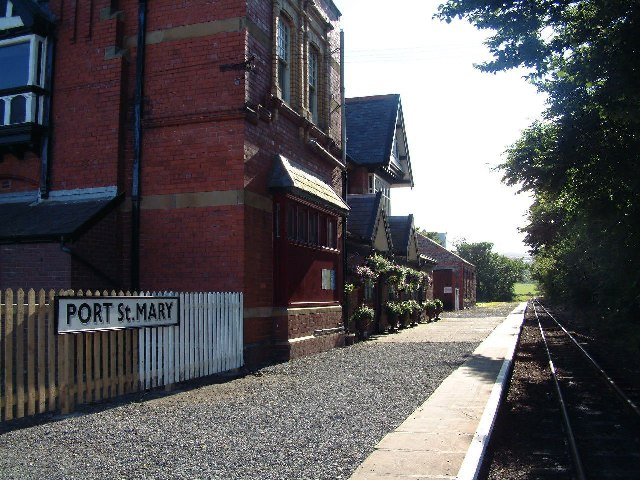 Port St Mary railway station